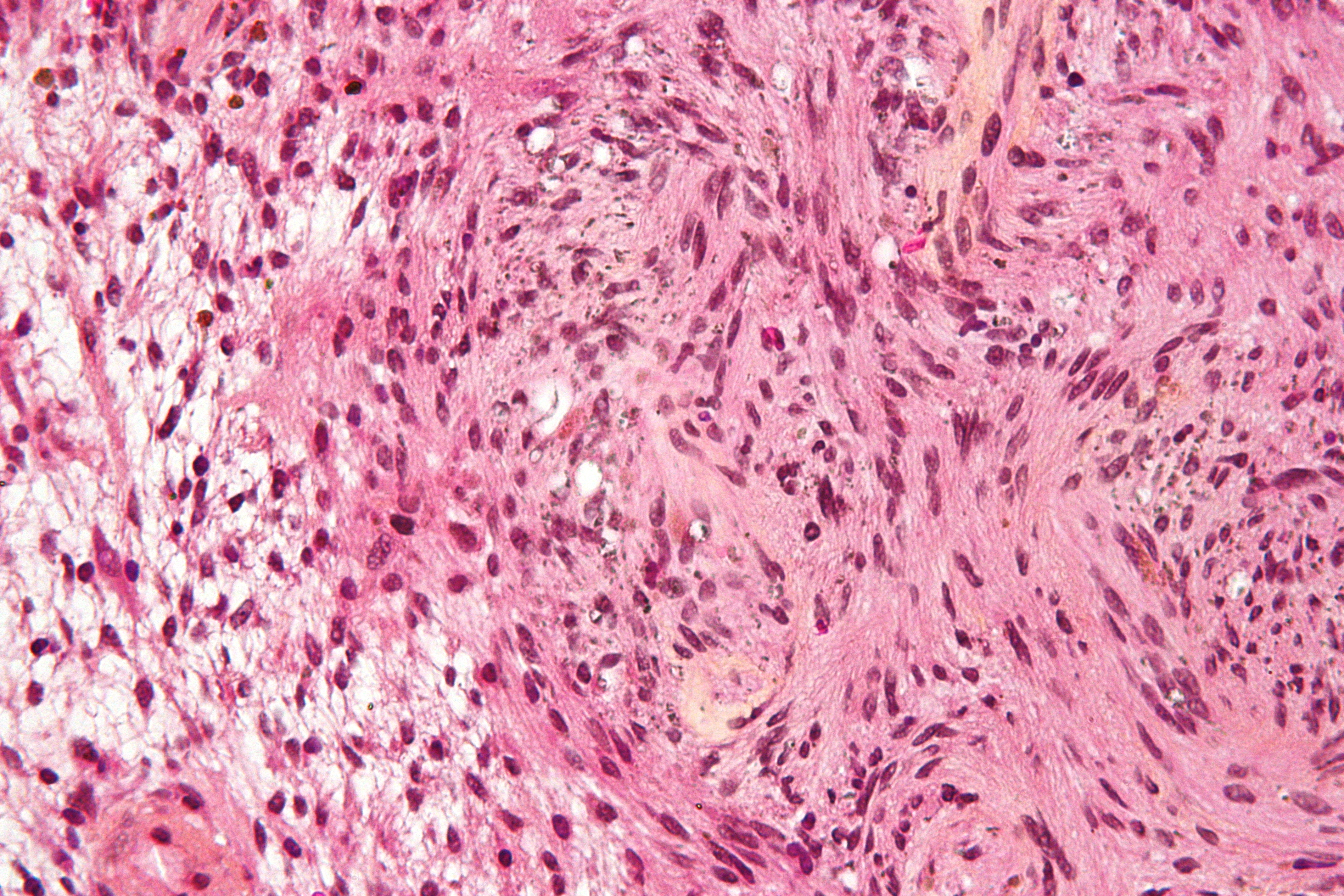 Very high magnification micrograph of a schwannoma. HPS stain. A cellular Antoni A area is seen on the right of the image. A paucicellular Antoni B area is seen on the left of the image. Related images Intermed. mag. Very high mag.